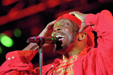 Jimmy Cliff in concert